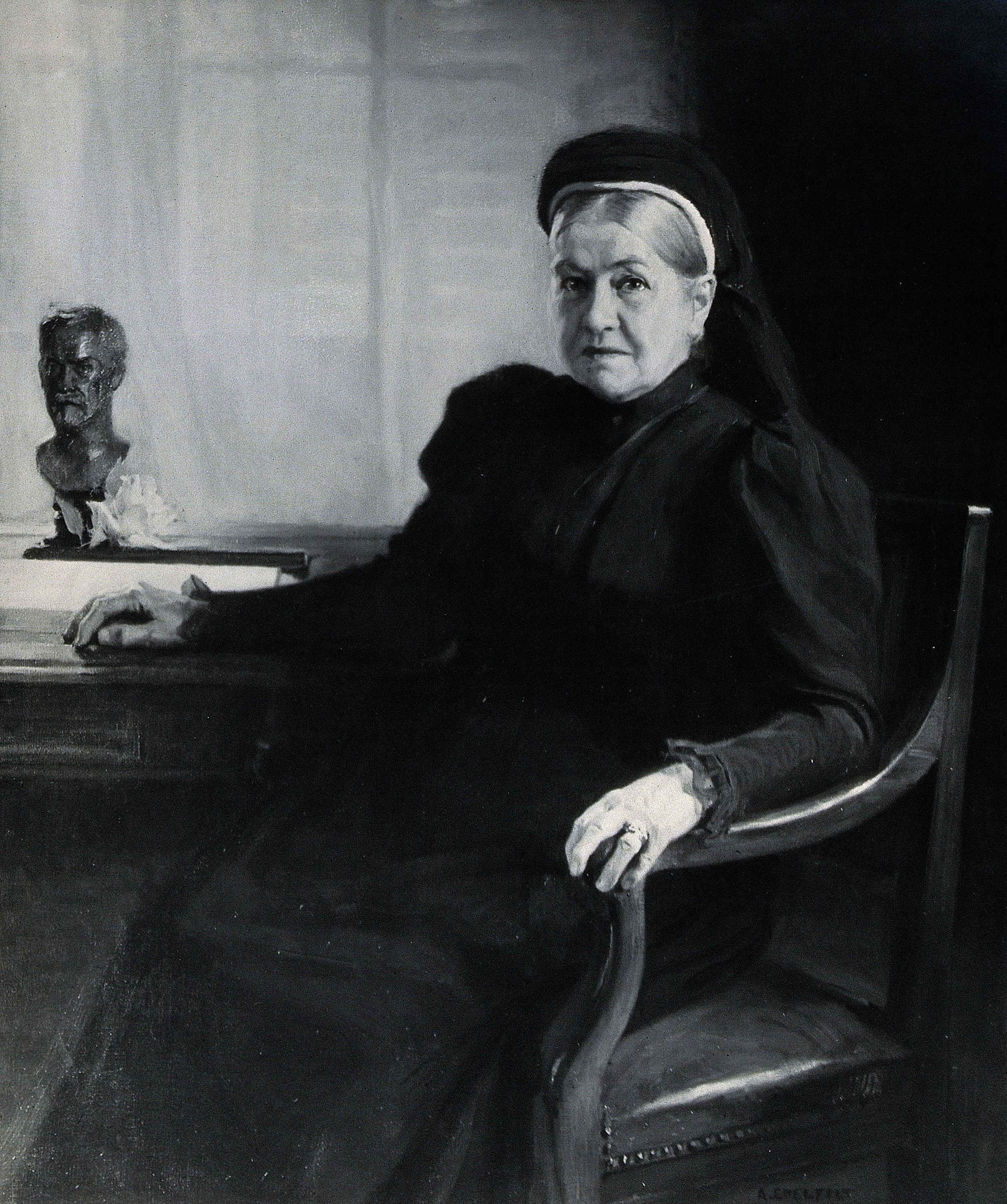 Madame Pasteur. Photograph after A. Edelfeldt, 1899. Iconographic Collections Keywords: portrait photographs